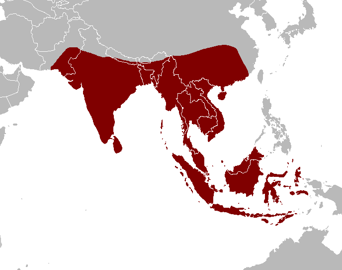 Distribution map for the fish family Pangasiidae, based on "Günther Sterba: Süsswasserfische der Welt. 2. Auflage. Urania, Leipzig 1990, ISBN 3-332-00109-4"